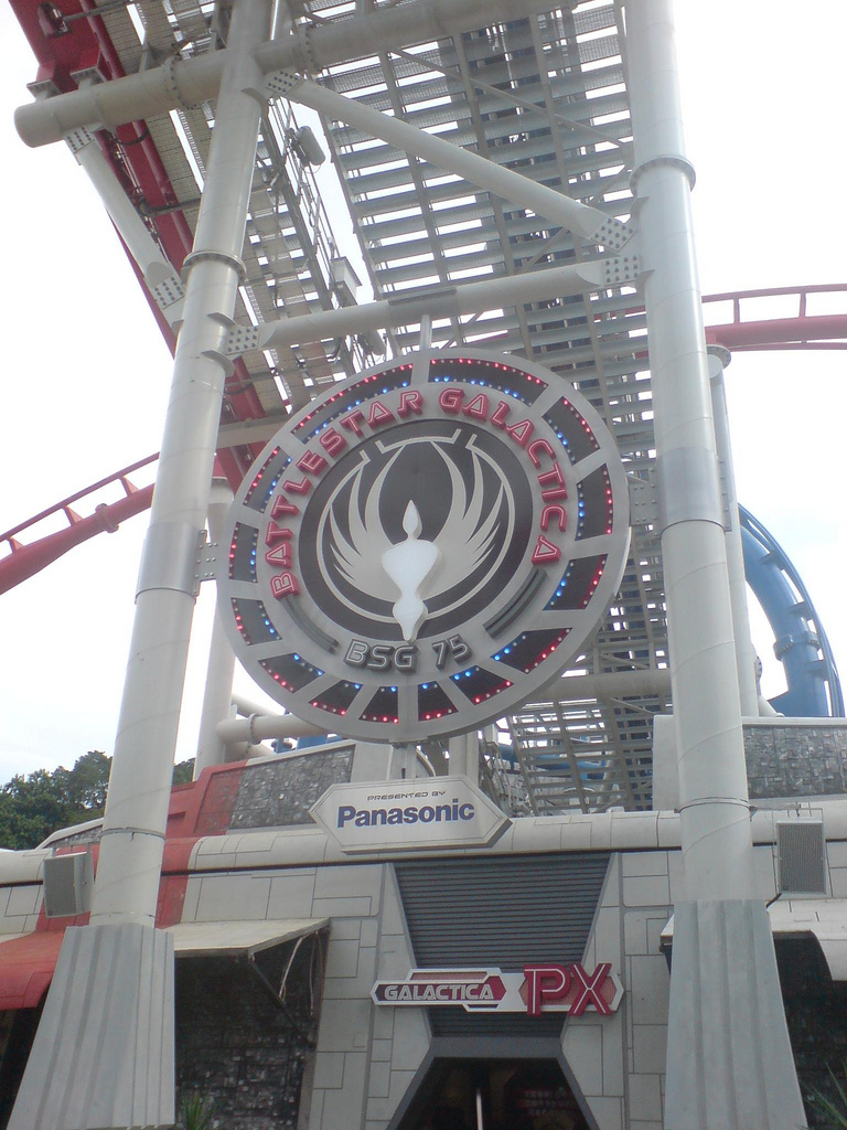 The entrance of Battlestar Galactica at Universal Studios Singapore